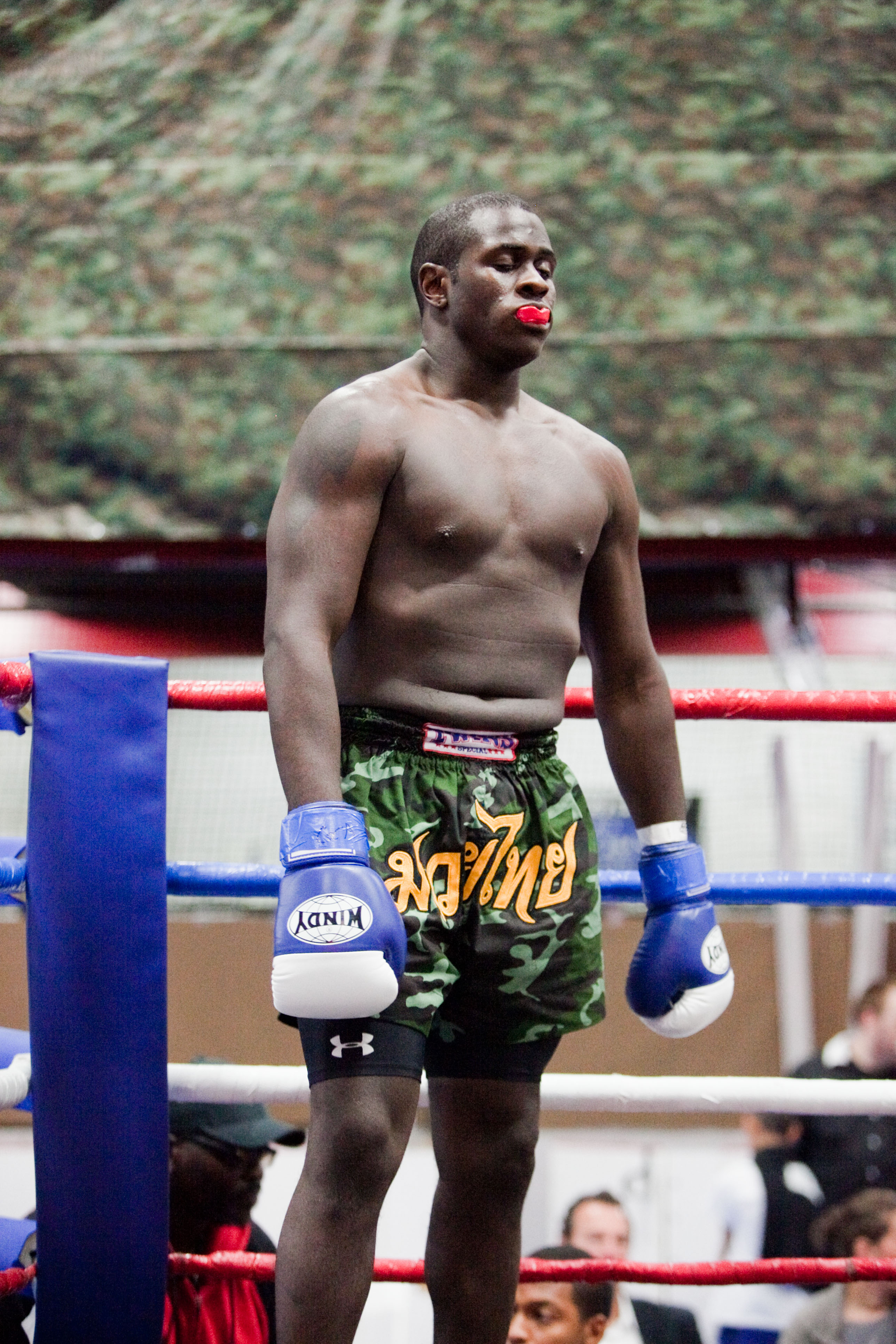 Muay Thai Championship Boxing Match in Sterling, VA - This is the fighter, Kiall Wright.